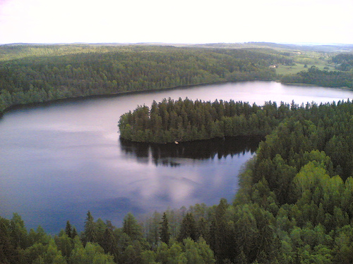 Aulangonjärvi lake and Lusikkaniemi cape seen from the Aulangontorni tower in Hämeenlinna, Finland.